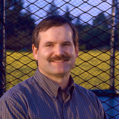 Portrait of Mark W. Publicover taken in 1997 in front of one of his patented trampoline enclosures.